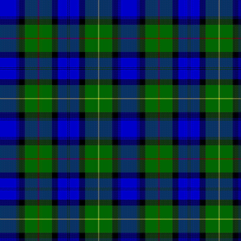 The Farquharson tartan, based on the Black Watch tartan. The design in the Vestiarium Scoticum has the red and yellow lines within the green bands, whereas the version Logan gives has the yellow within the green and the red within the blue bands. (Source: Stewart, Donald. Setts of the Scottish Tartans). Thread count: (Stewart, Donald. Scotland's Forged Tartans) B56 Bk6 B6 Bk6 B6 G54 R/Y6 G54 Bk20 B56 Bk2 B12. Thread count: (Stewart, Donald. Setts of the Scottish Tartans, Plate 54) B56 Bk2 B2 Bk2 B2 Bk20 G44 R/Y4 G44 Bk20 B32 Bk2 B4.